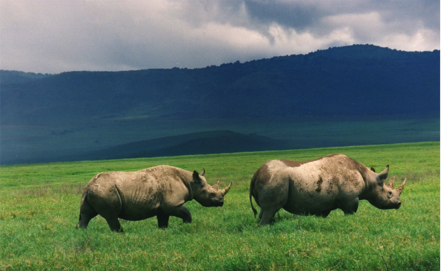 Black Rhinos in Ngorongoro Crater. The image is a scan of an old film print. Photograped by Brocken Inaglory in :Ngorongoro Crater, Tanzania